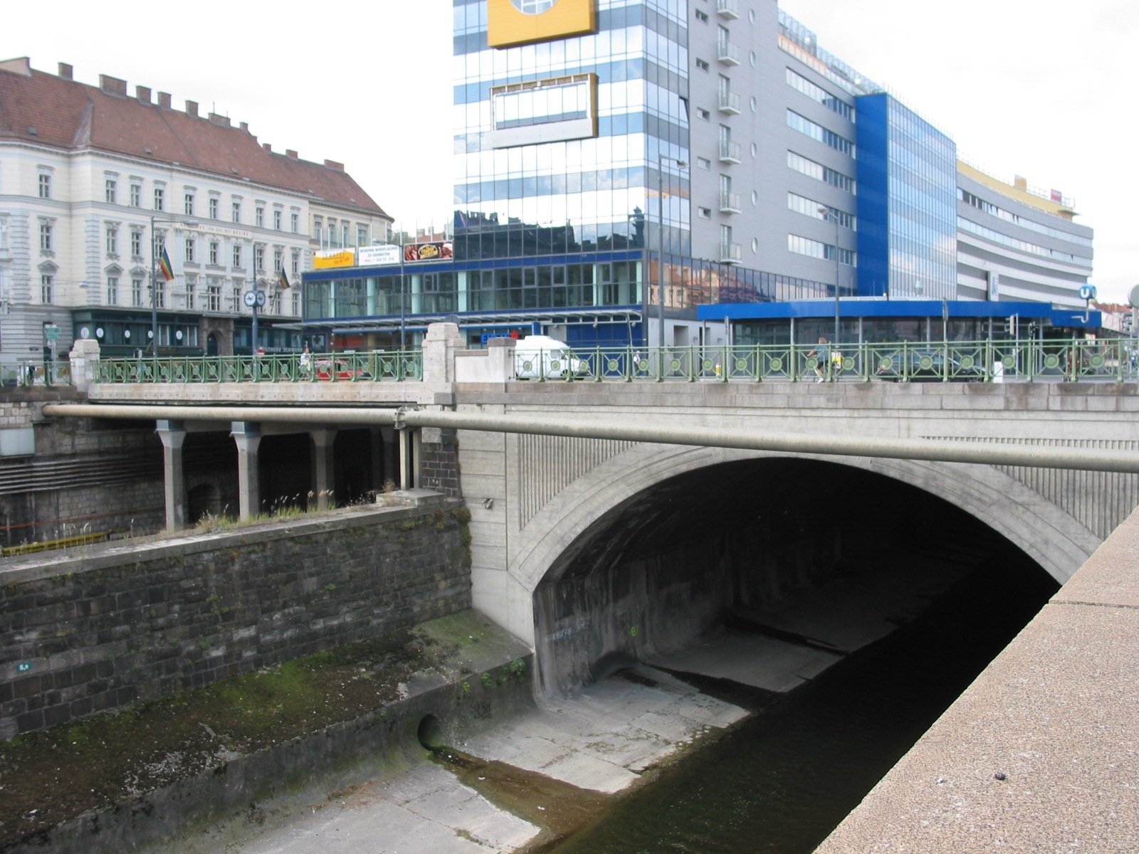 Lobkowitzbrücke over Wien river, Vienna XII + XV